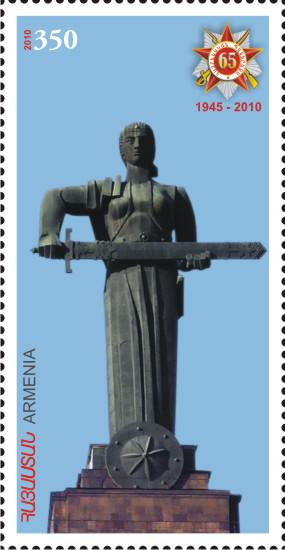 Stamp of Armenia